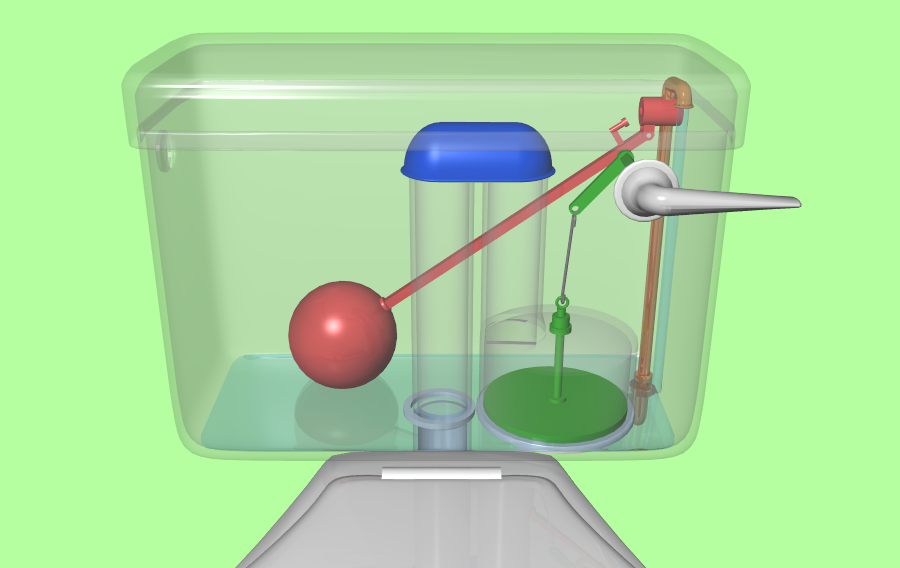 toilet wc